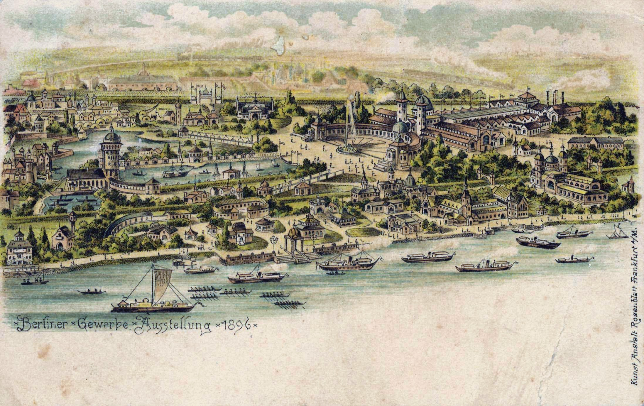 old picture postcard of Berlin industrial exhibition 1896 in Treptower Park - overlook of the exhibition area